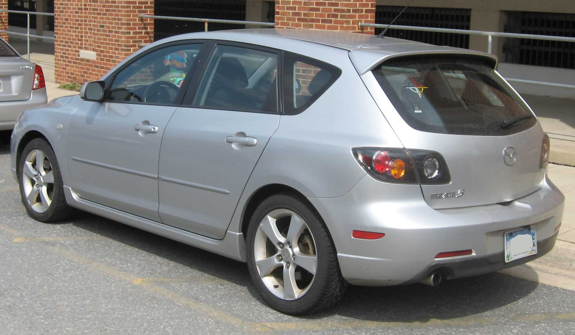 2004-2006 Mazda3 photographed in College Park, Maryland, USA.